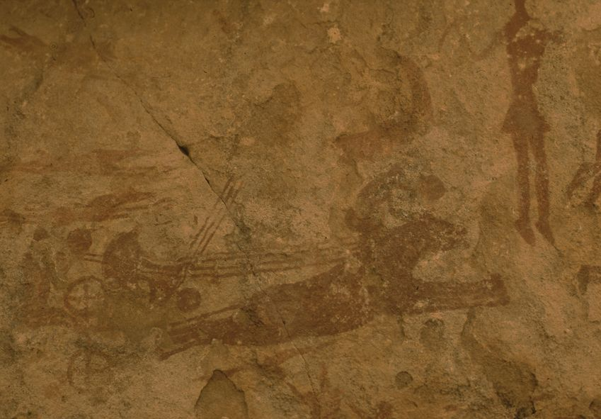 Wagon figure.